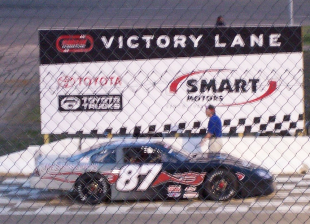 The former NASCAR Craftsman Truck Series driver for Roush Racing.Madison International Speedway - 05.18.07 Madison Late Model #87 Nathan Haseleu